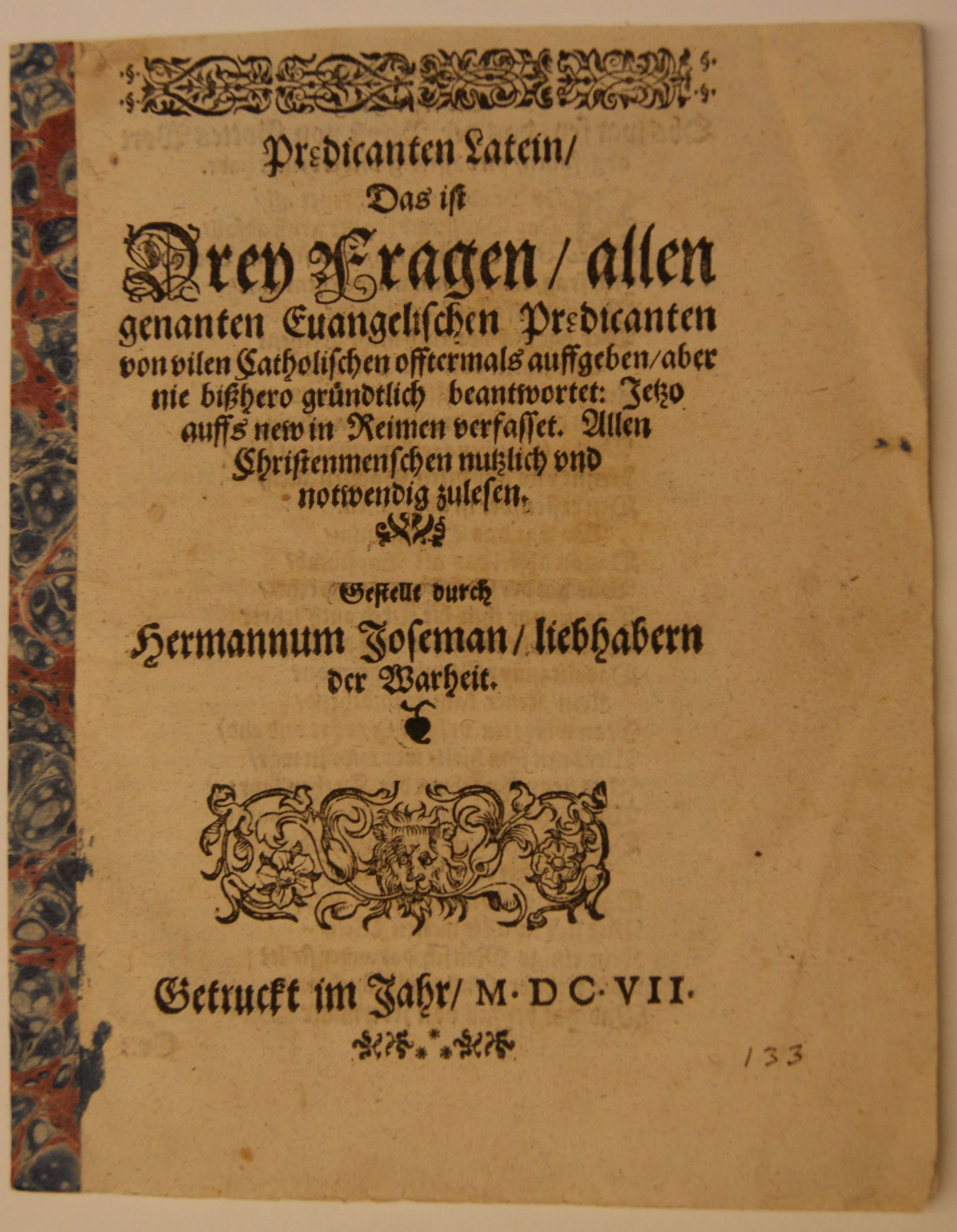 Cover page of the work of Hermannum Josemann (pseudonym of Jos Metzler) "Predicanten Latin", Ingolstadt, Mainz, Rorschach 1608. Jos Metzler (also Father Jodocus Metzler, Jost Metzler or Mezler and Jodocus Metzlerus or Jodoci Mezleri, born in 1574 in Andelsbuch, Vorarlberg, Austria; died on April 7, 1639 in Wil (Switzerland). Photographed in the Vorarlberg State Library - Sig.: VD Schnell B. (d.Ä.) 1609/1.